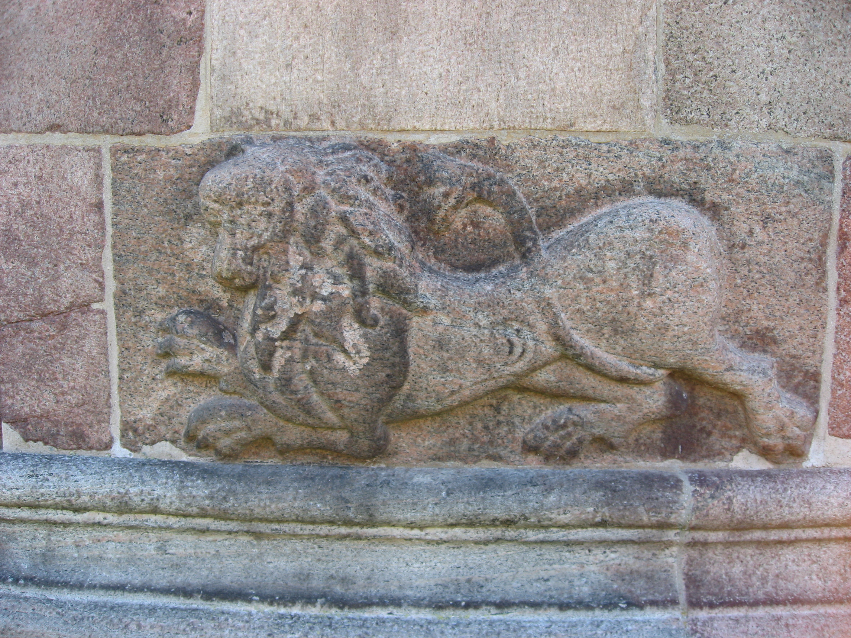 One of two lions on an apse on Viborg domkirke, Denmark. The stone works are from the Romanesque period. This and its counterpart has been used as inspiration for the lion depicted on the back site on the 200 krone bill in the 1997 series.